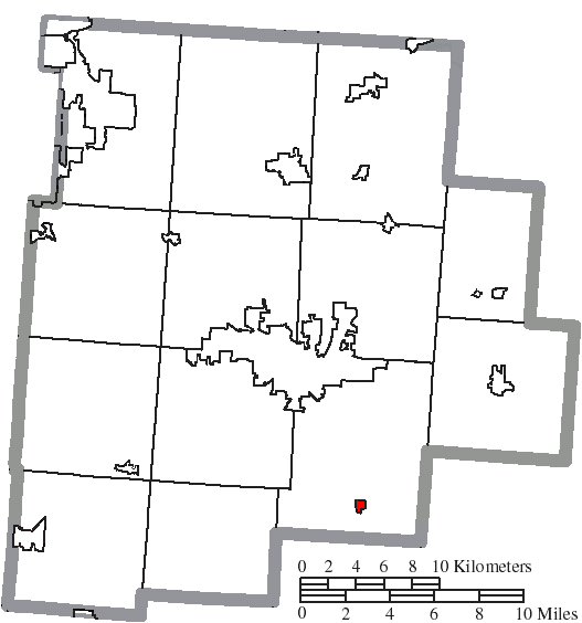 Map of the municipal and township boundaries of Fairfield County, Ohio, United States, as of the 2000 census, with the location of the village of Sugar Grove highlighted. Township borders are shown only in unincorporated areas in order to differentiate incorporated and unincorporated areas more clearly.